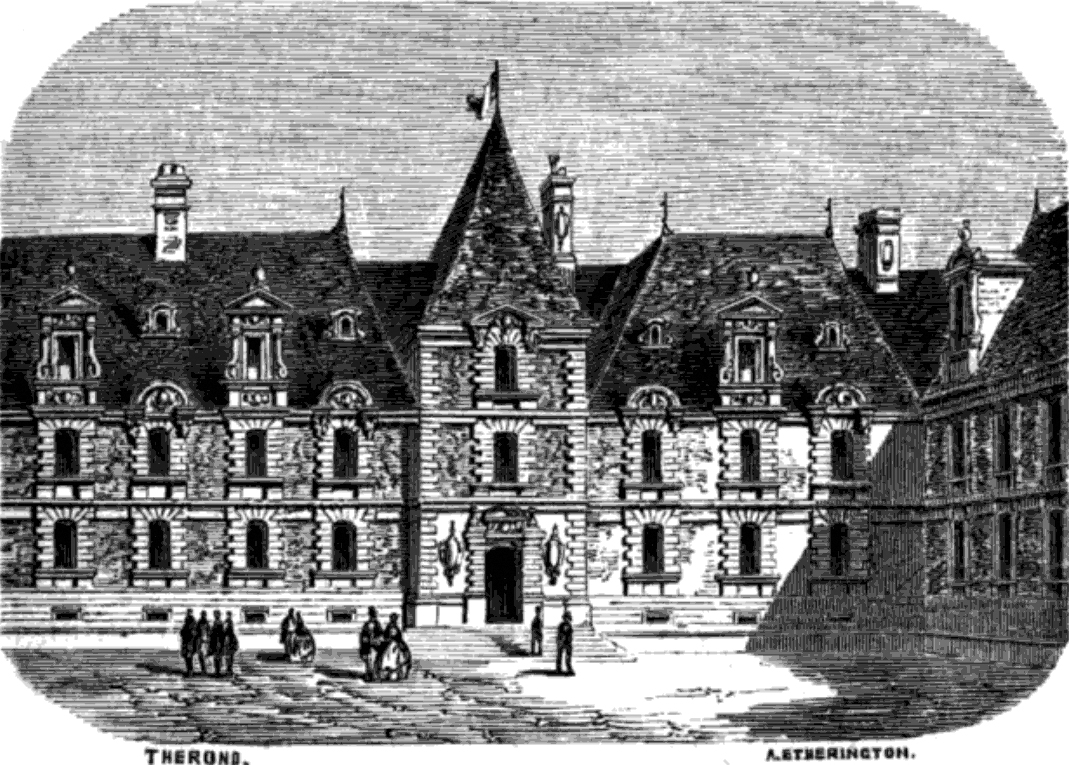 The Prefecture of Alençon, France.